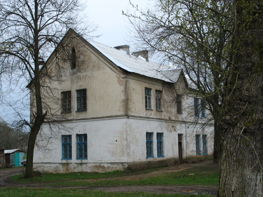 Manor of Maniuszka, Smilaviczy, Bielarus